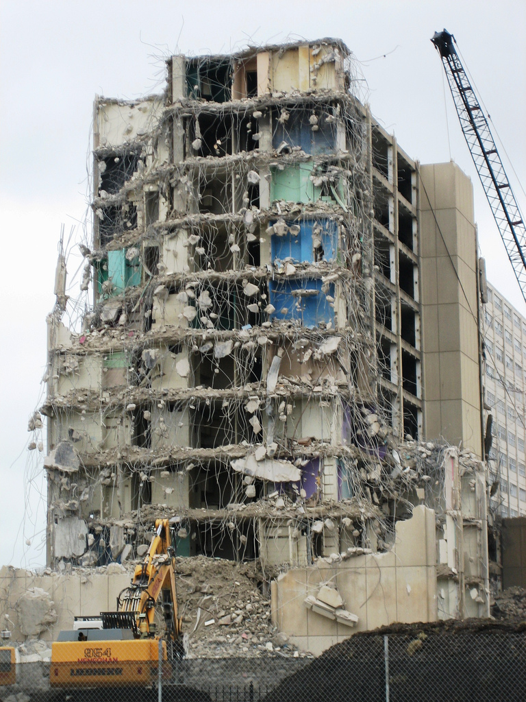 Housing projects in Chicago, IL being demolished.Goodbye Cabrini Green Apartments, Chicago